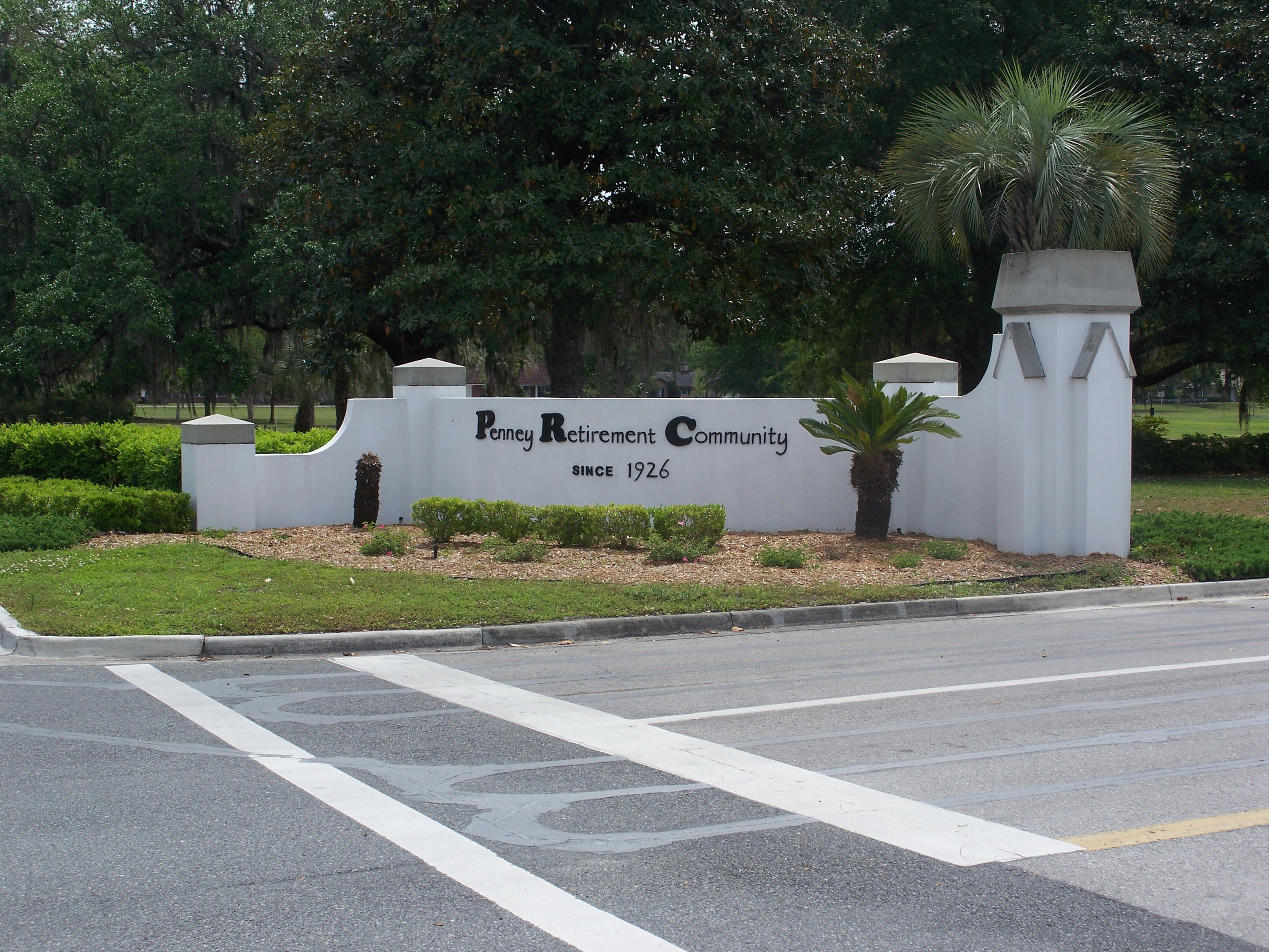 Penney Farms, Florida: Memorial Home Community Historic District: Entrance to the district.